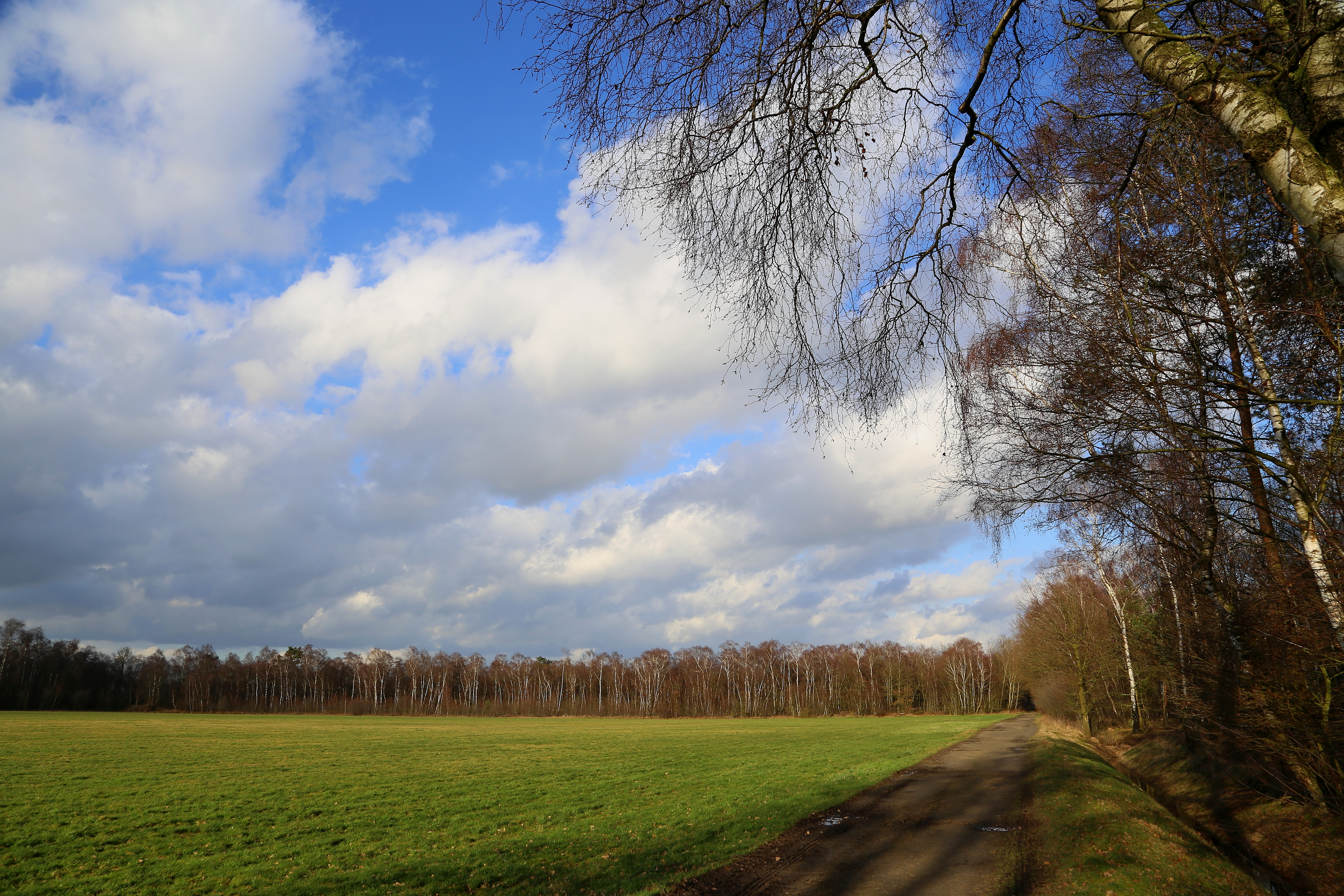 The nature reserve (Naturschutzgebiet) „Mettinger Moor“ in Mettingen-Bruch, Kreis Steinfurt, North Rhine-Westphalia, Germany.